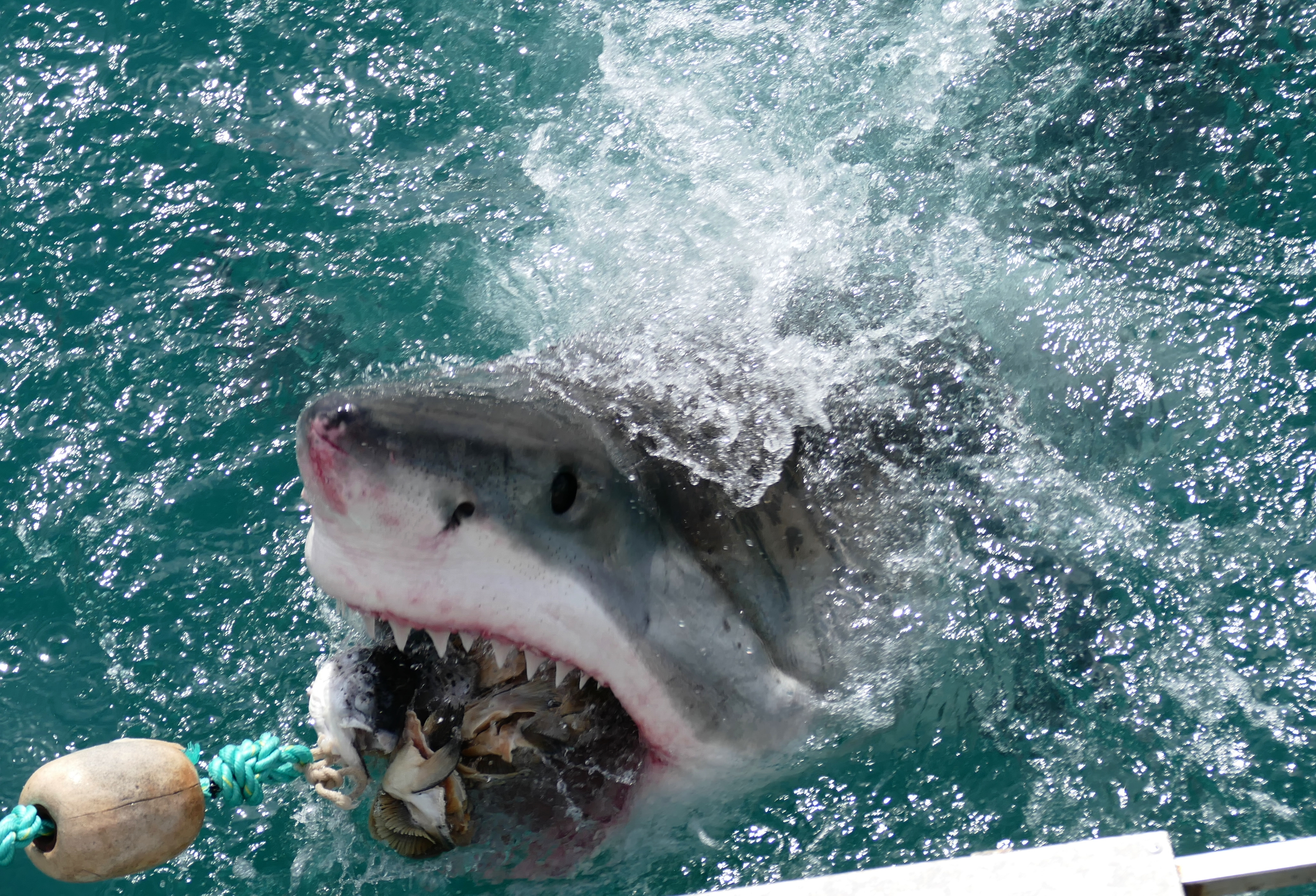 The Shallows, Gansbaai, Western Cape, SOUTH AFRICA